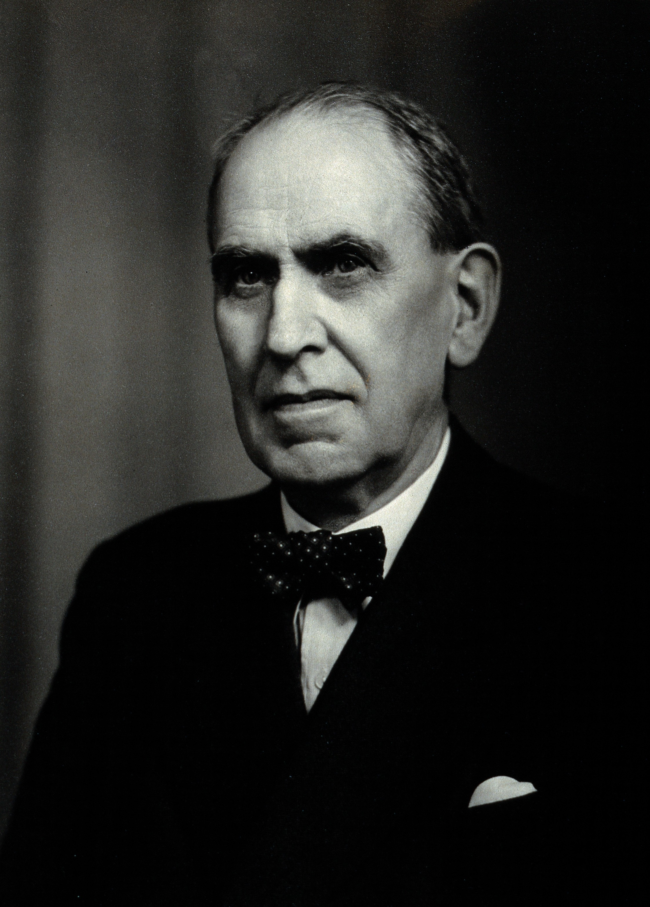 Edward Provan Cathcart. Photograph by T. & R. Annan & Sons Ltd, 1948. Iconographic Collections Keywords: Edward Provan Cathcart; portrait photographs